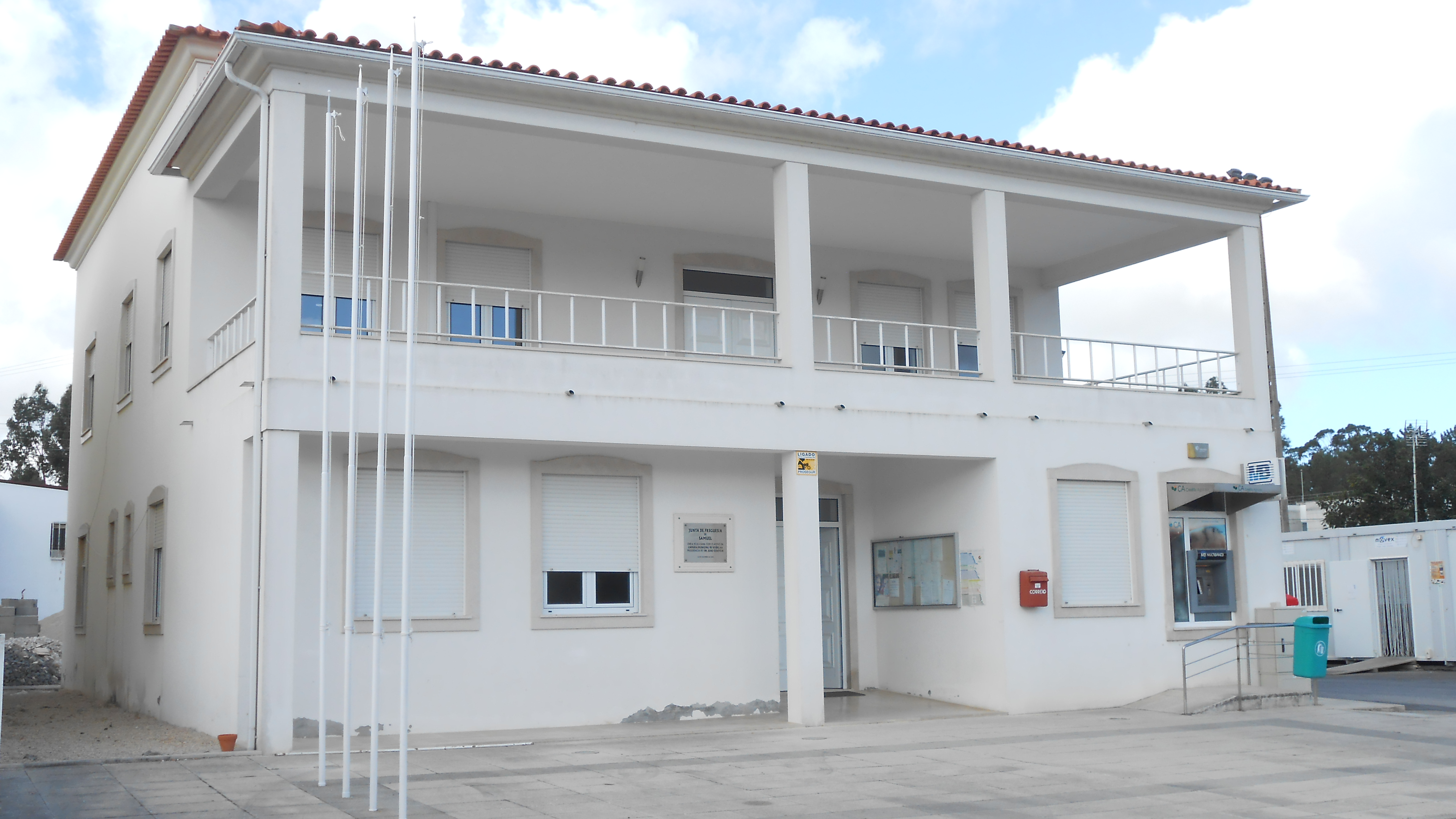 Administration building of the Samuel parish, municipality of Soure, Coimbra district, Portugal.